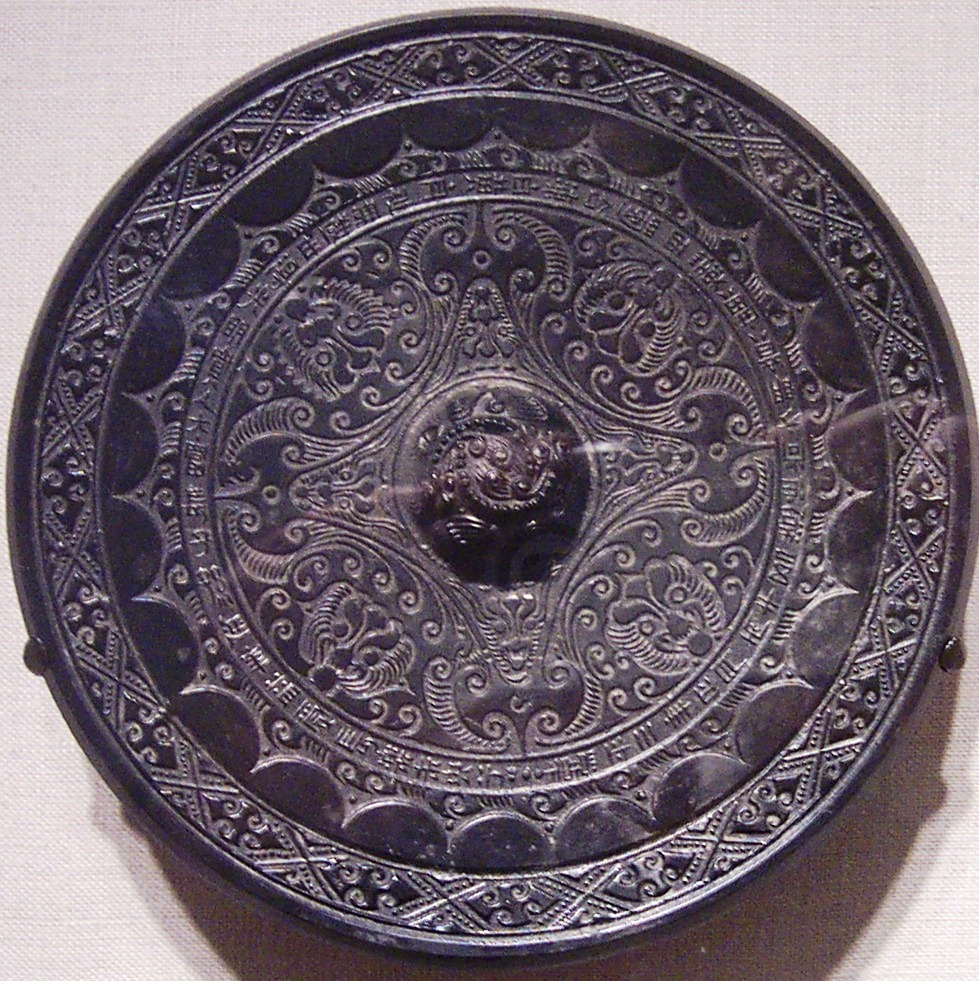 An Eastern Han Chinese inscribed bronze mirror with feline heads in a scalloped field, made in 174 AD